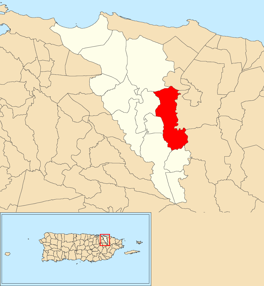 Canovanillas, Carolina, Puerto Rico locator map